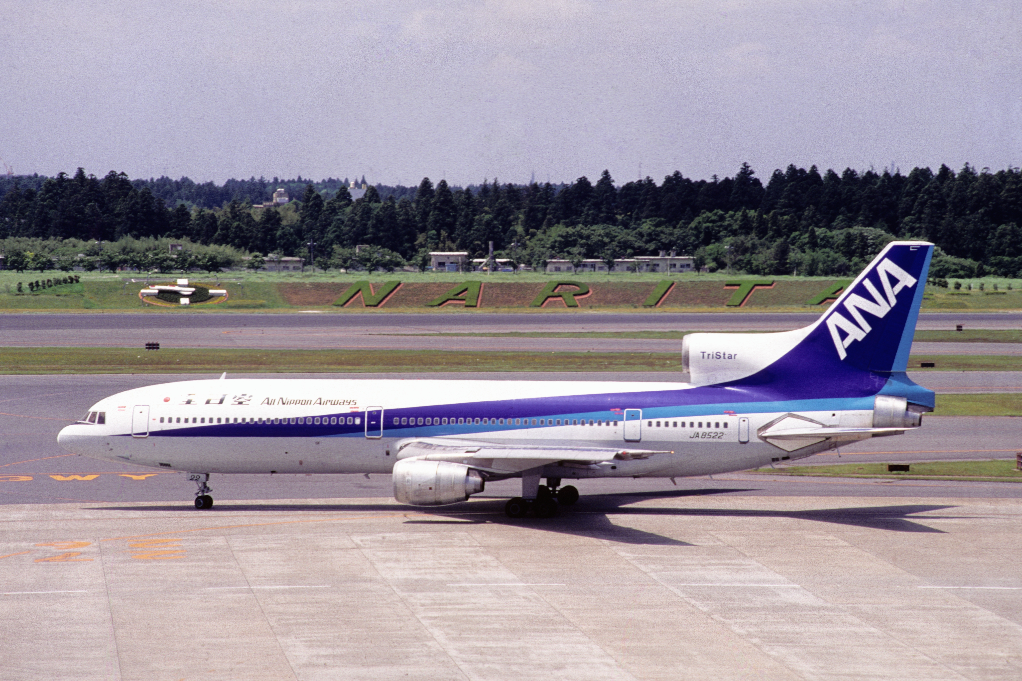 Old Pictures